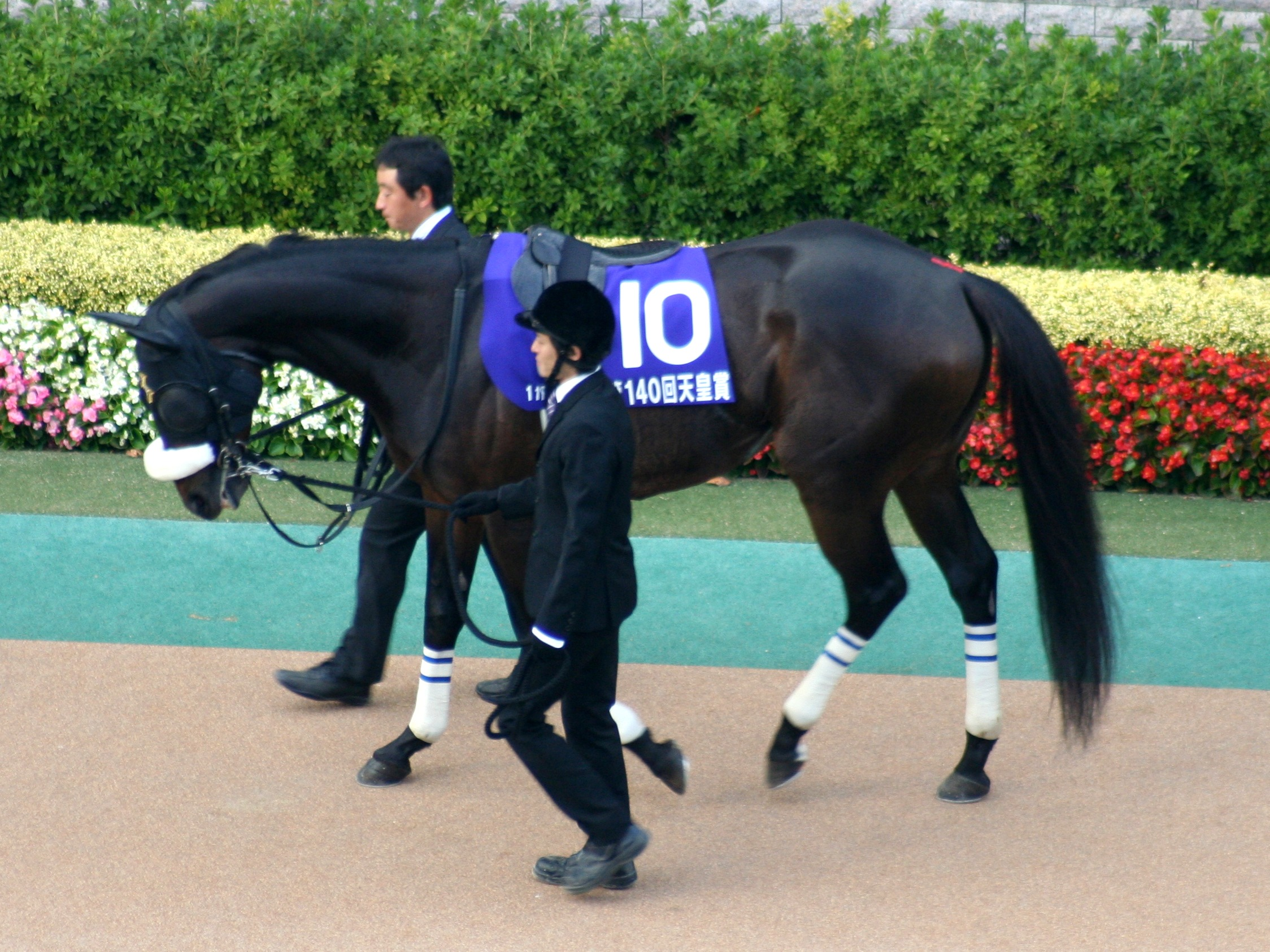 Shingen(Racehorse)